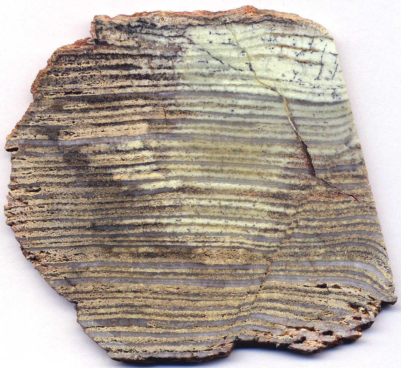 Faulted, silicified stromatolite (cut & polished slice, 10.5 cm across at its widest) from the Precambrian of Australia. This is a sample from the oldest known definite fossil occurrence on Planet Earth. This is a faulted, chertified stromatolite from the Paleoarchean of Western Australia. Stromatolites are large, layered structures built up by mats of cyanobacteria. They vary in appearance, ranging from slightly wrinkled horizontal laminations in sedimentary rocks to low mounds to prominent mounds to columnar structures and other forms. Stromatolites are most common in the Proterozoic fossil record. They are scarce today, but famous modern examples occur at Shark Bay, Western Australia. The oldest known examples are ~3.5 billion years old, from Western Australia - this is a specimen from that occurrence. Stratigraphy & age: stromatolitic-chert member, Strelley Pool Formation, middle to lower Paleoarchean, 3.35 to 3.46 Ga Locality: East Strelley Greenstone Belt, Pilbara Craton, Western Australia